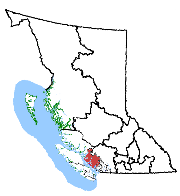 Map of the West Vancouver—Sunshine Coast—Sea to Sky Country electoral district. Based on Earl Andrew's maps, created by SimonP.